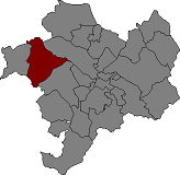 Location of Torrelles de Foix in Alt Penedès